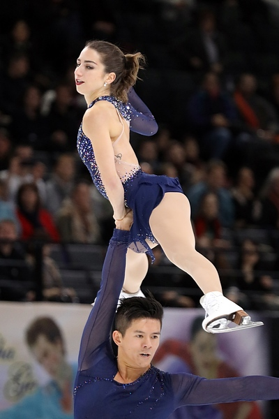 Marissa Castelli and Mervin Tran at the 2016 Trophée de France.